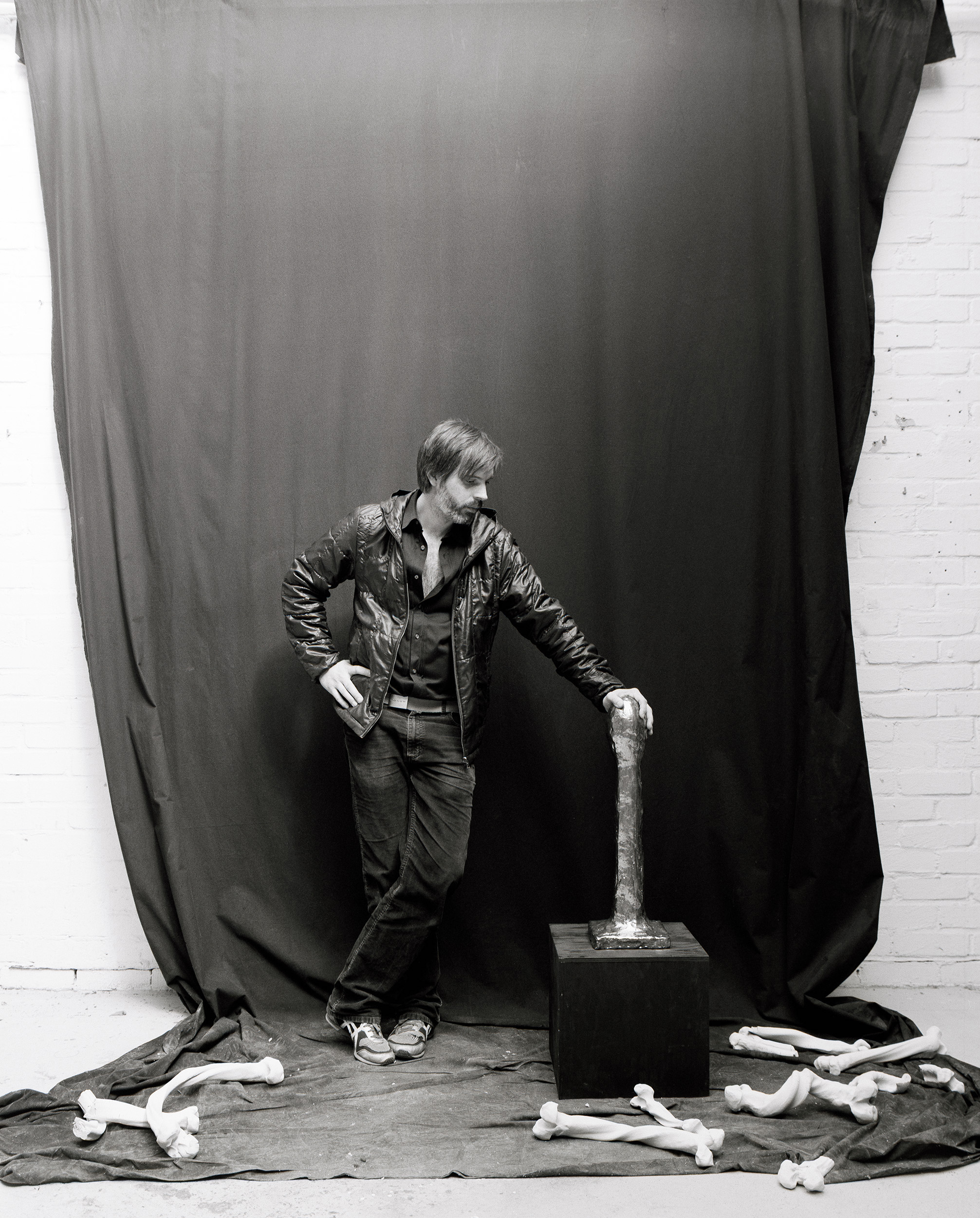 Markus Karstieß portrayed by Oliver Mark, Düsseldorf 2011